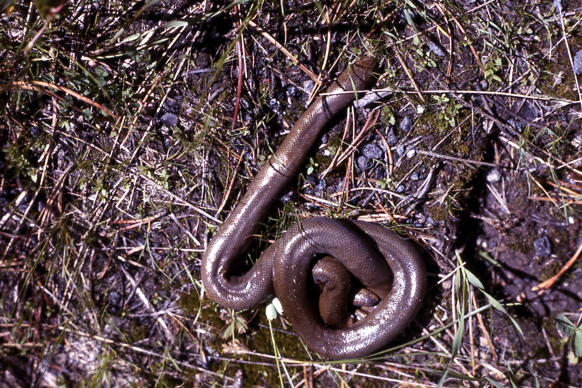 Rubber Boa, Charina bottae, Yellowstone National Park